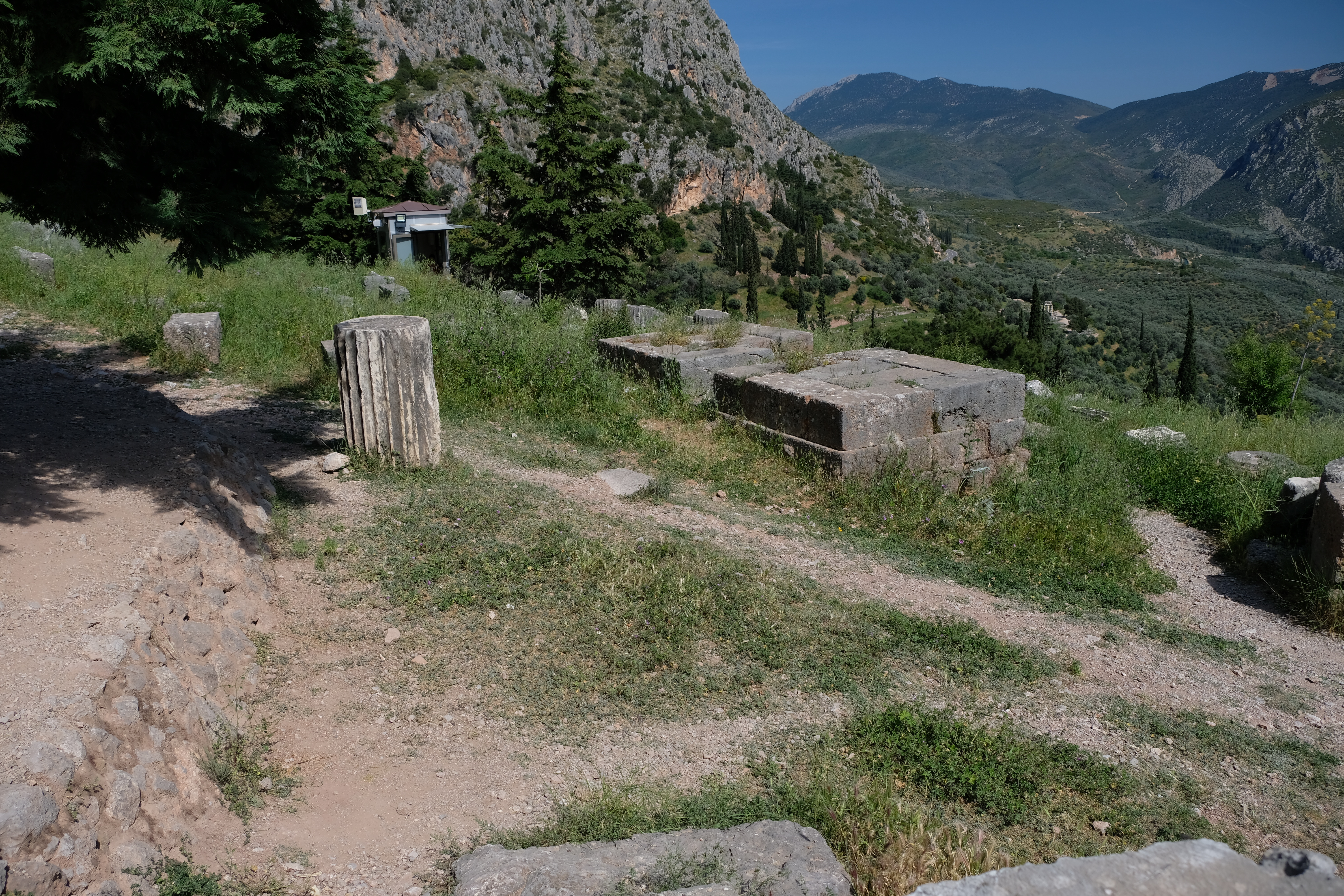 Treasury of Cnidus